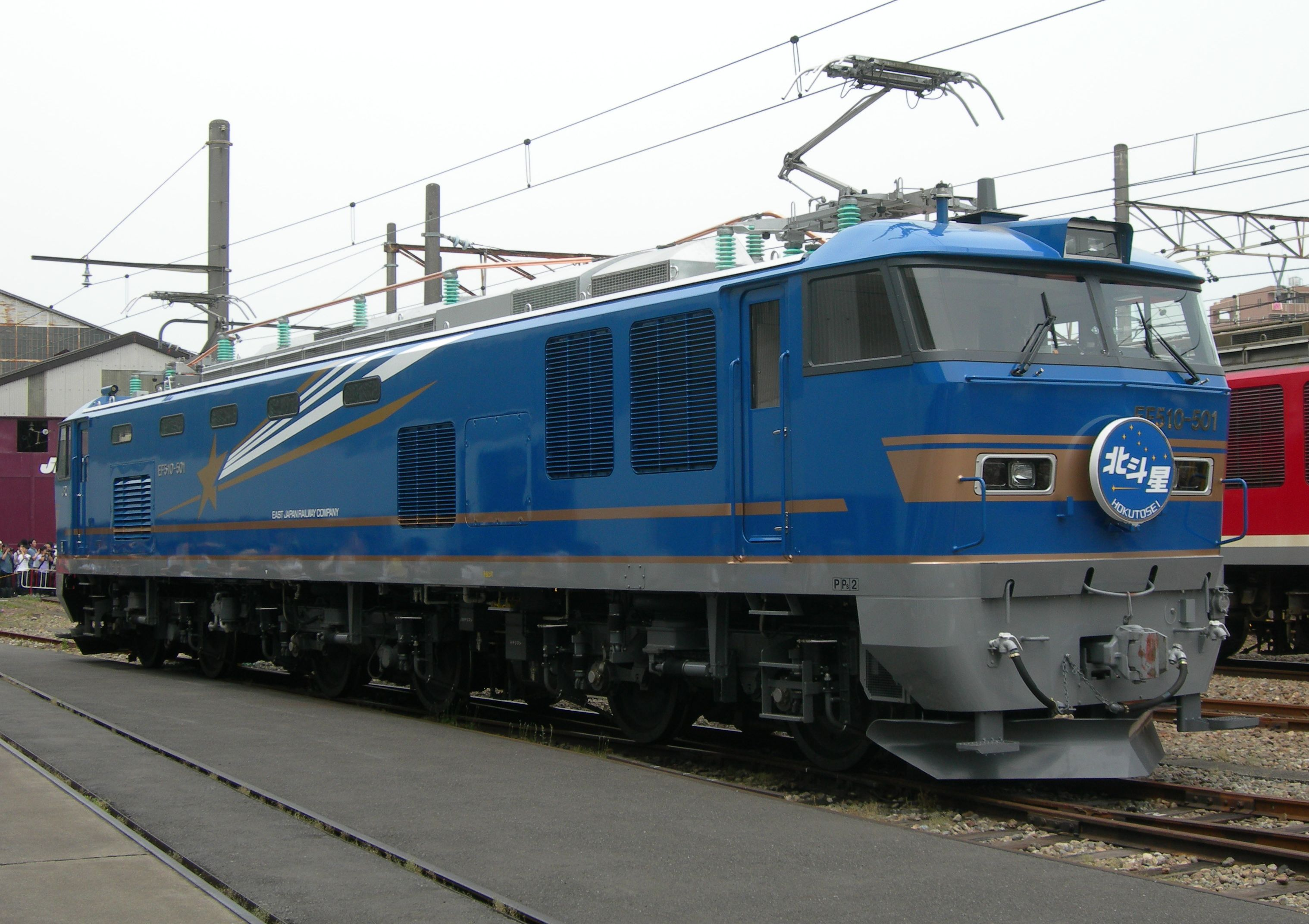 JR East Class EF510-500 electric locomotive EF510-501 on display at Omiya Works Open Day